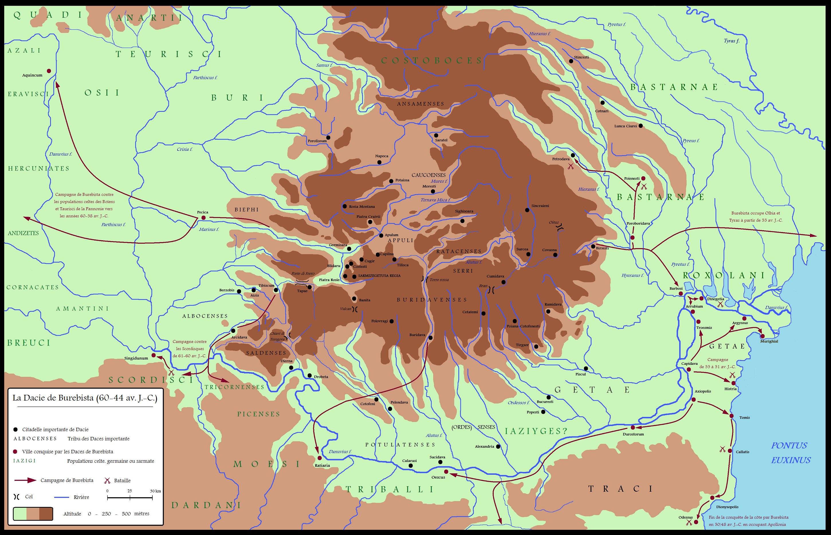 Dacian Kingdom around 60-44 BC during the time of Burebista (r. 82-44 BC), including the Dacian king's military campaigns